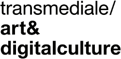 transmediale type logo